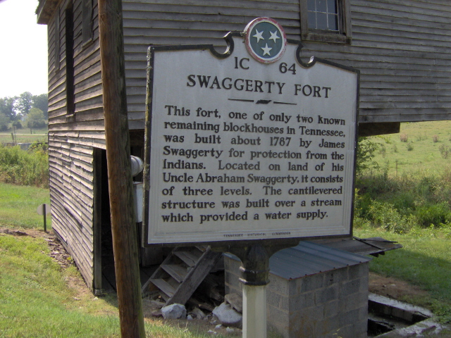 Tennessee Historical Commission marker at the Swaggerty Blockhouse site near Parrottsville, in the U.S. state of Tennessee. The dense brush spanning the photo on the other side of the blockhouse marks the direction of Clear Creek. While local sources believed the blockhouse was built in 1787 by early settlers, recent evidence suggests it was a cantilever barn built around 1860. The wellhouse below was added in the middle 20th century.